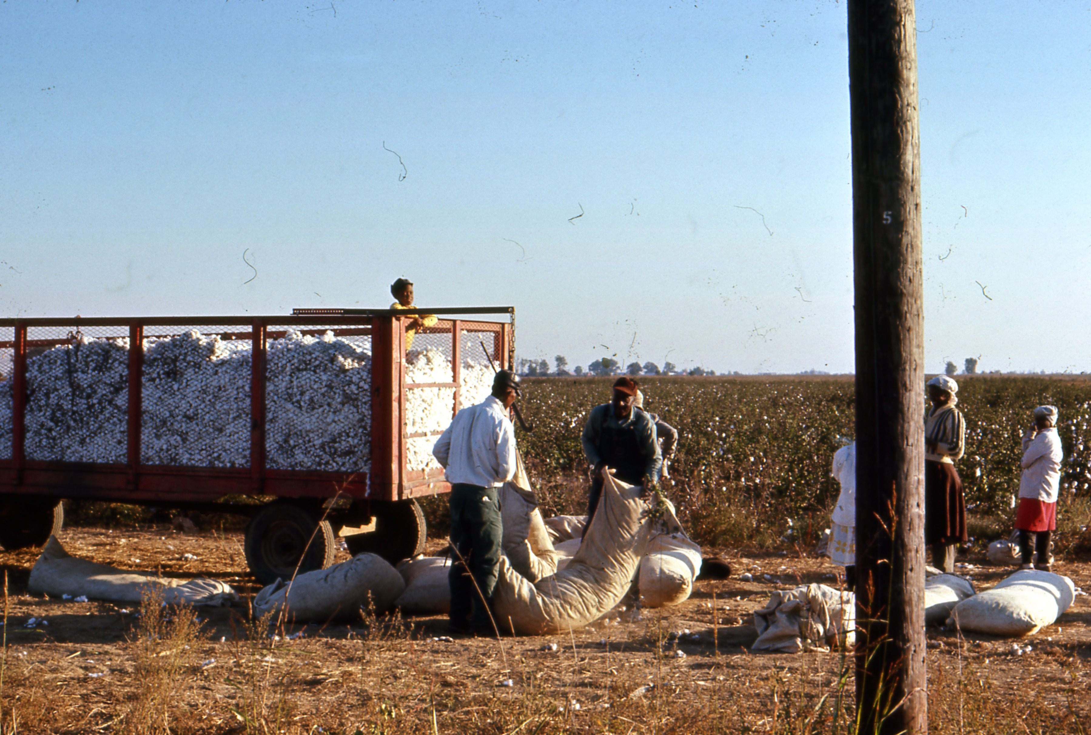 Harvesting cotton in the Mississippi Delta near Greenville, circa 1966.